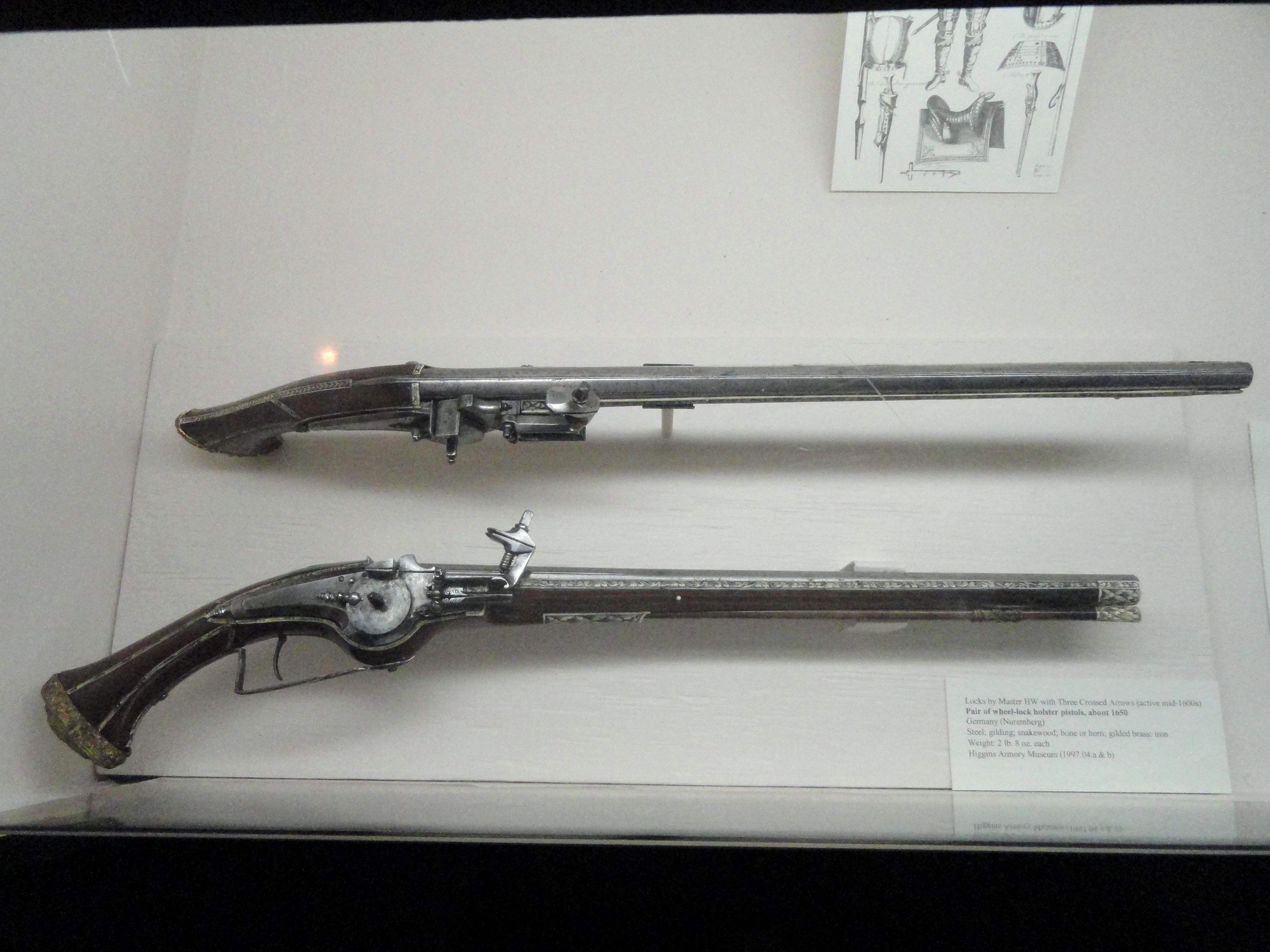 Exhibit in the Higgins Armory Museum, 100 Barber Avenue, Worcester, Massachusetts, USA. The museum permitted photography without any restriction, both in writing and when I asked verbally.